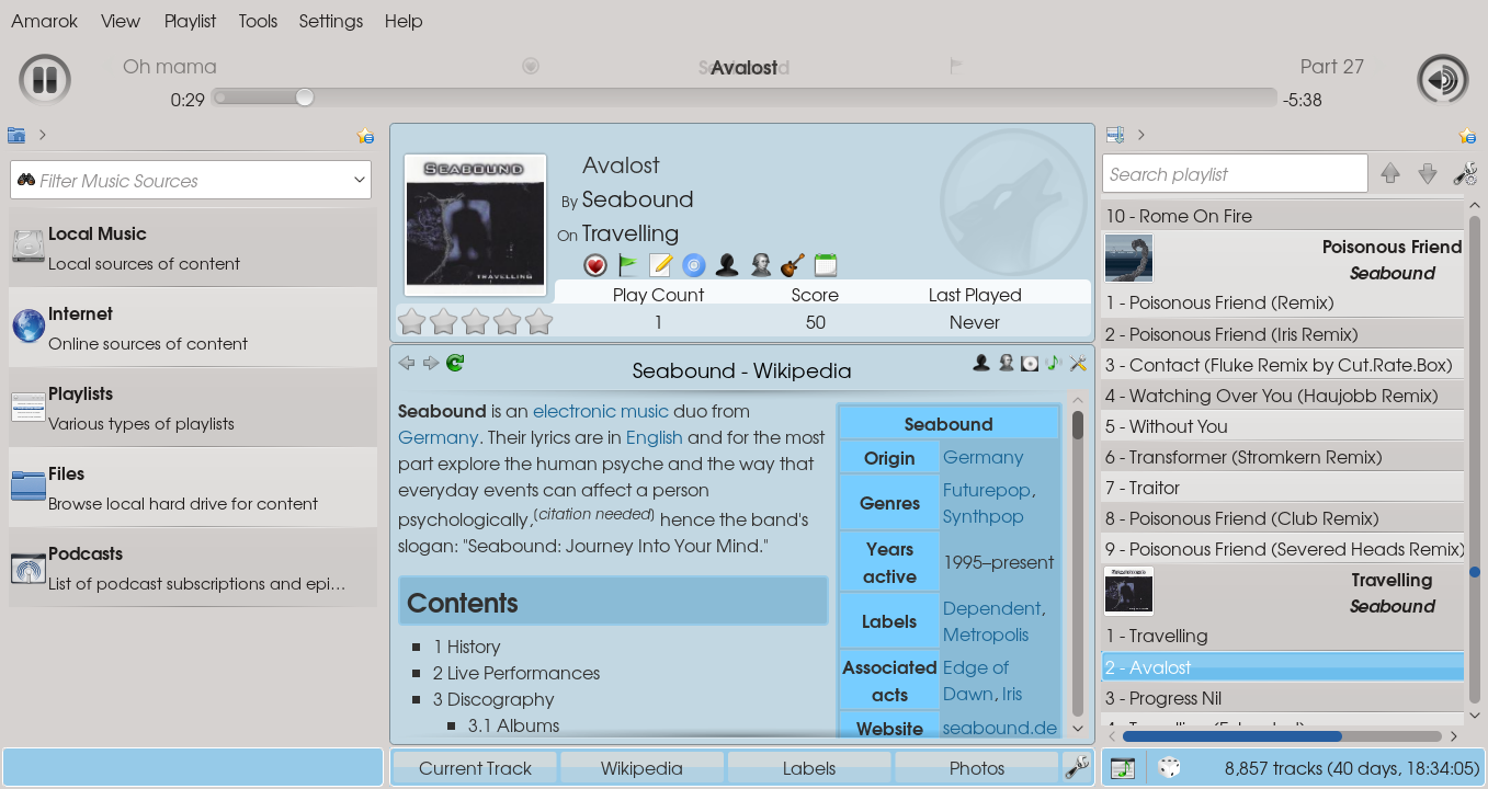 Amarok 2.8.90 in KDE 4.14.30 on Fedora 25.